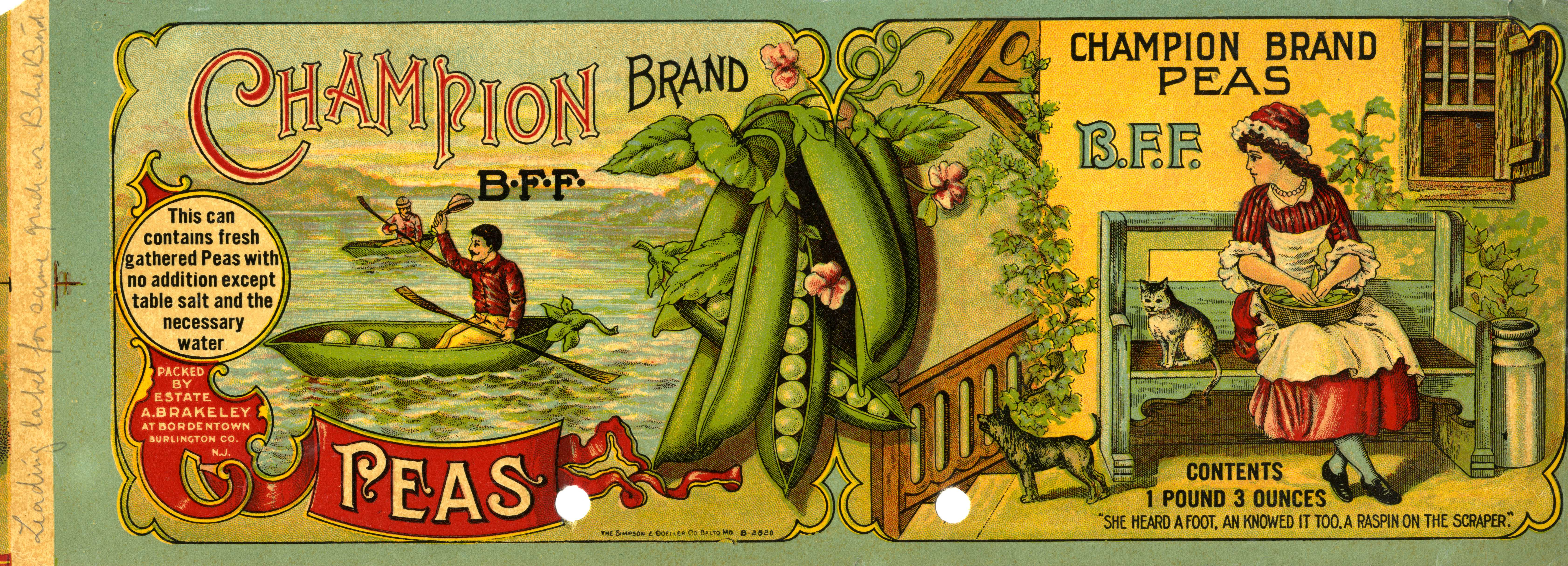 Scope and content: This item is a label for a one pound, three ounce can of Champion Brand Peas.